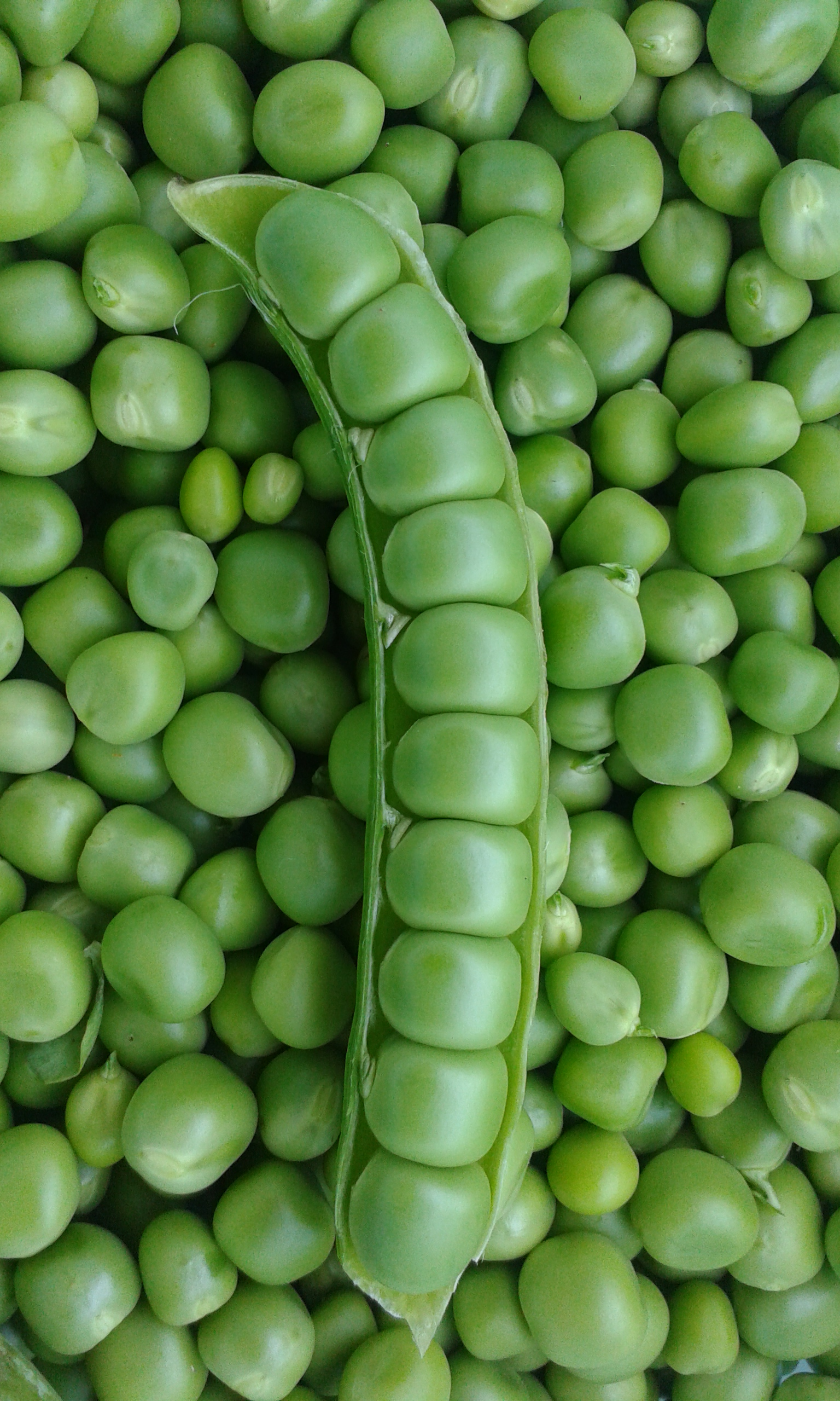 Pisum sativum